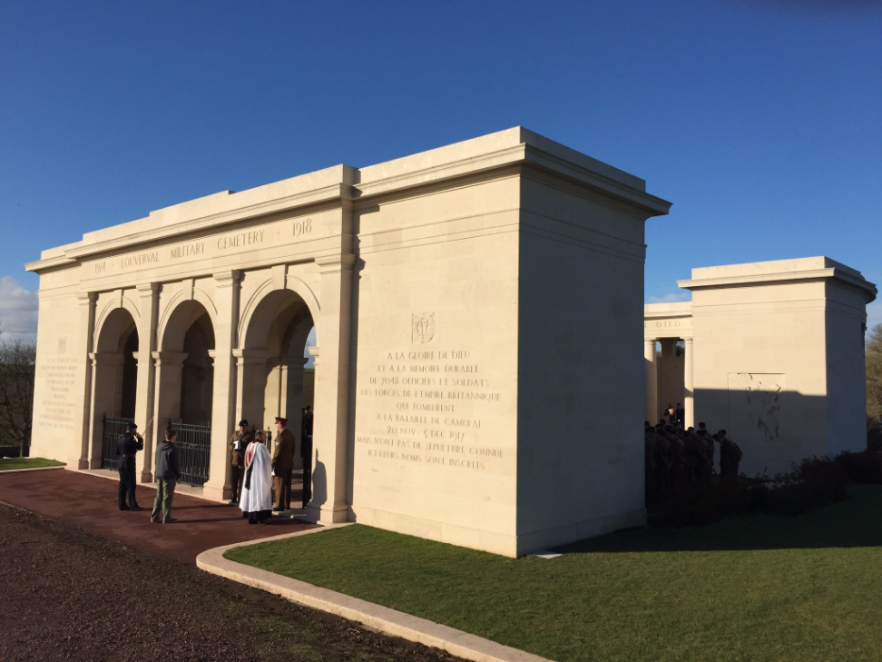 Louverval Memorial on 24th November 2017 shortly before a Drumhead Service by the Royal Tank Regiment marking the 100th anniversary of the Battle of Cambrai